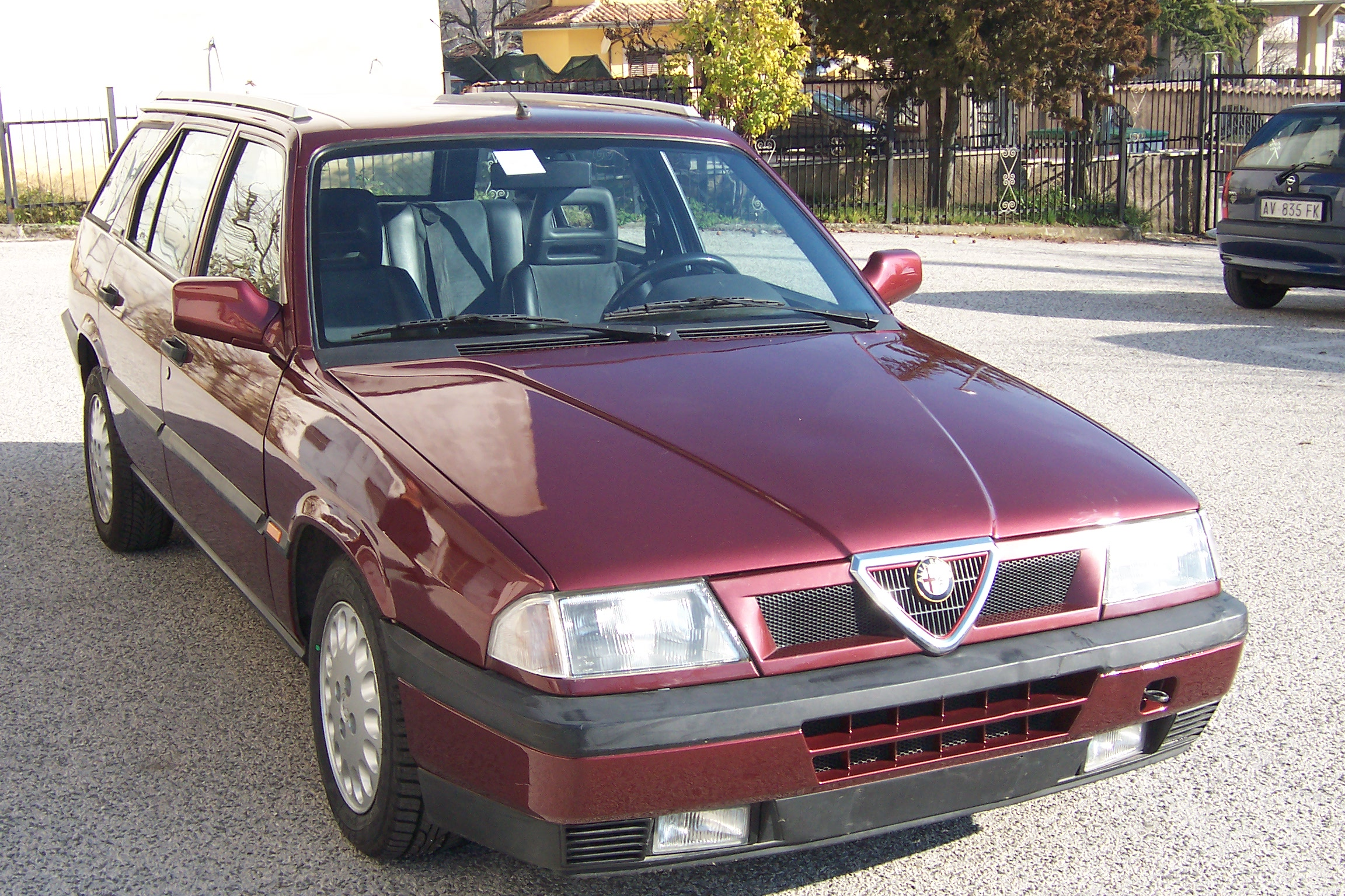 Alfa 33 Q4 SW